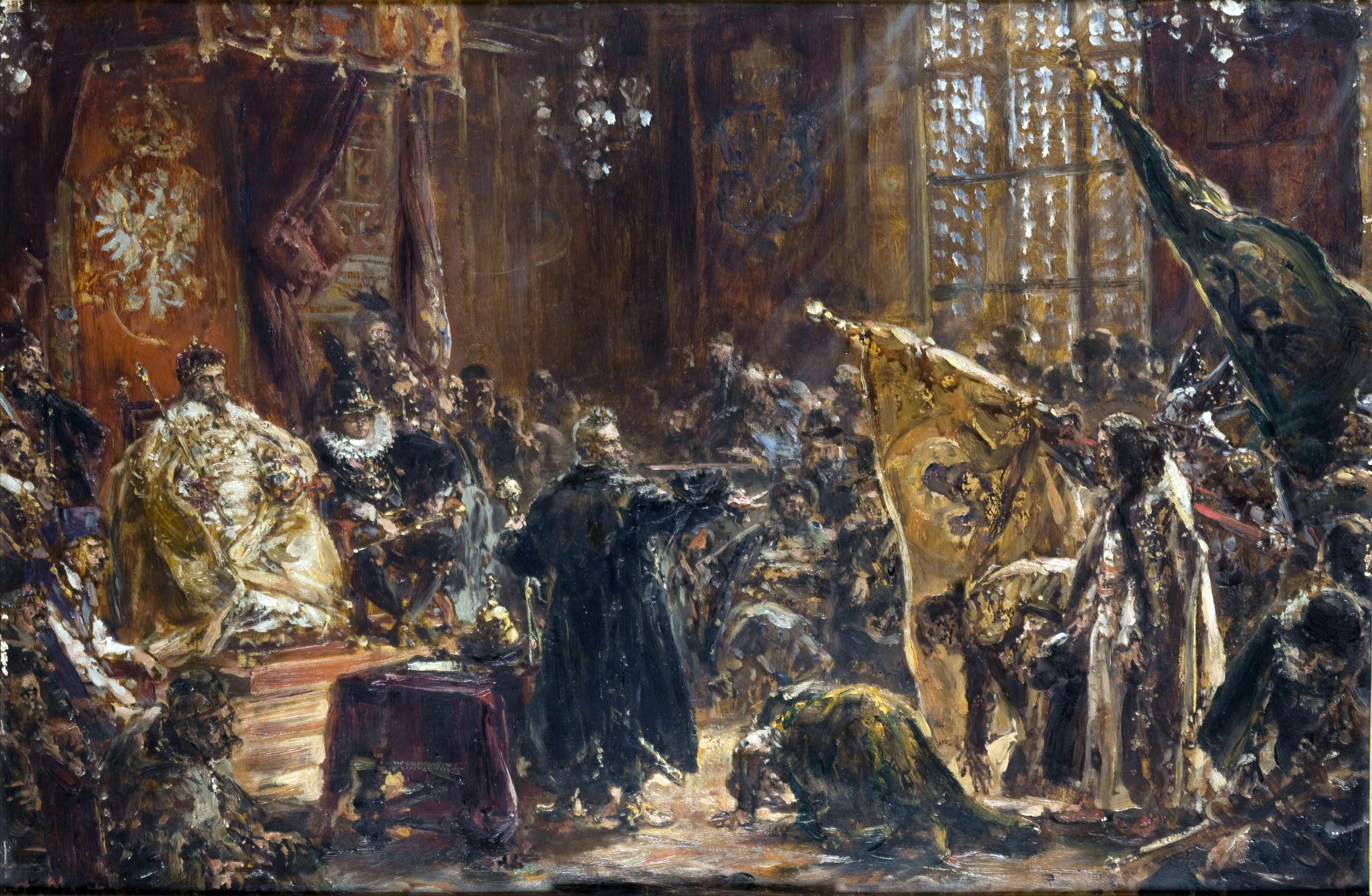 Russian Tsar Vasili IV Shuyski brought by Zólkiewski and compelled to knee before Polish King Sigismund III Vasa at Sejm in Warsaw on 29 October 1611